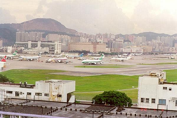 Kai Tak Airport. Photo taken by myself (User:Sl) on 2 July 1998. The buildings in the background are in Kowloon Bay and Kwun Tong. 啟德機場，在1998年7月2日拍攝。